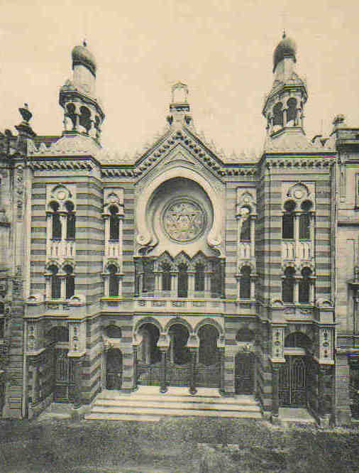 Jubilee Synagogue on an old postacrd